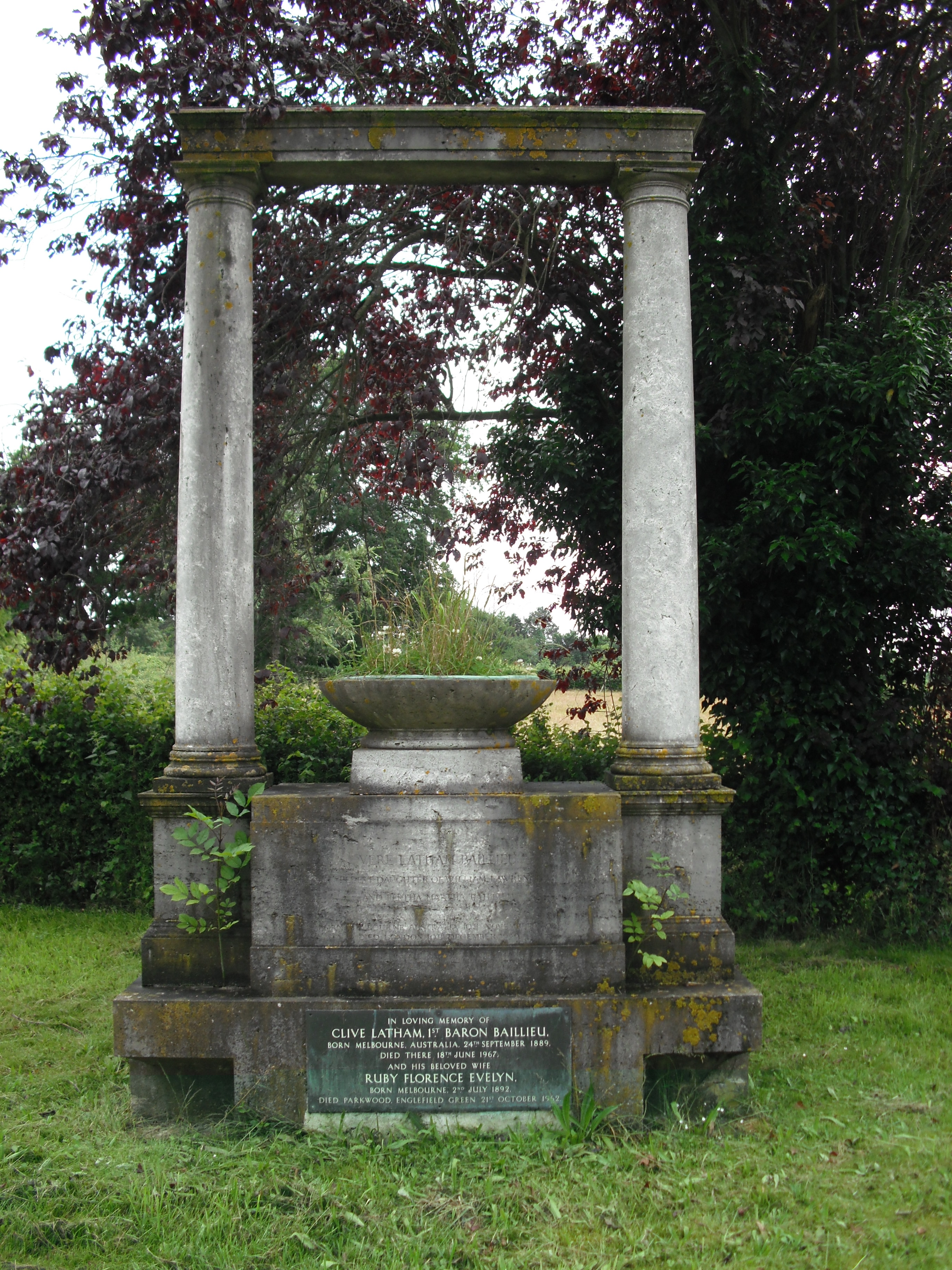 Memorial to Clive Baillieu, 1st Baron Baillieu, at Windlesham, England.